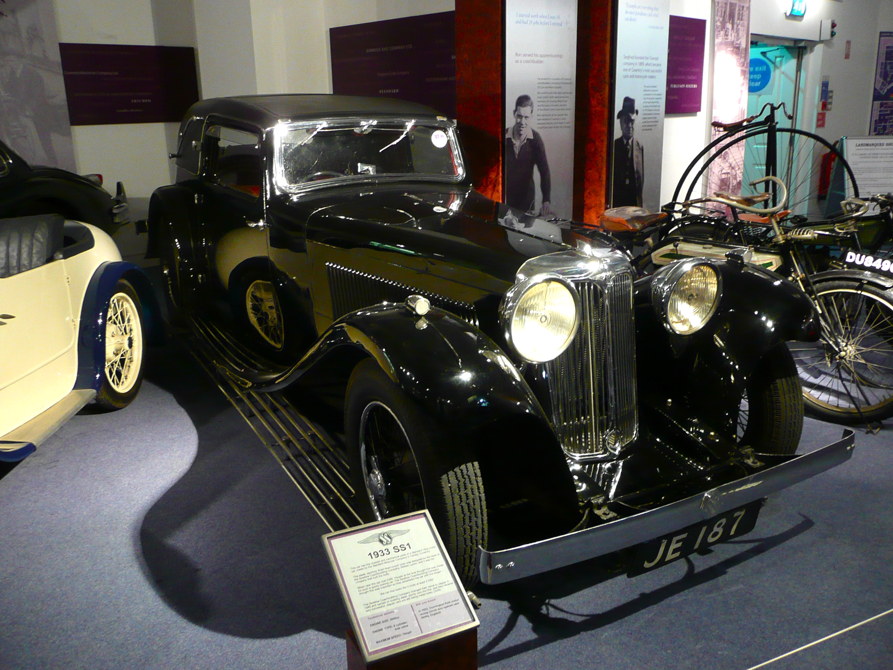 SS1 coupé 1933 Coventry Transport Museum "This car has the chassis and mechanical parts of a Standard 16hp motor car made by The Standard Motor Company in Carbery Coventry . . ." from sign Engine size: 2000cc Engine type: six cylinder, side valve